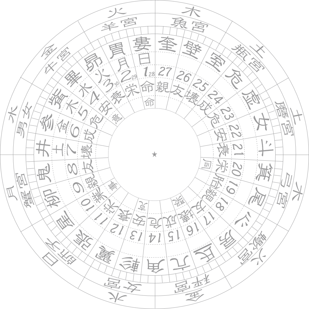 Nakshatra lunarmansion kuukai japan sukuyo